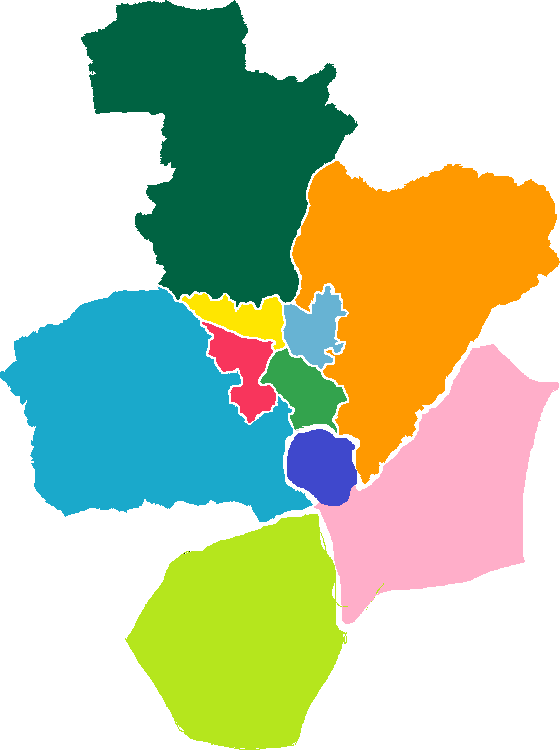 Subdivision of Hefei